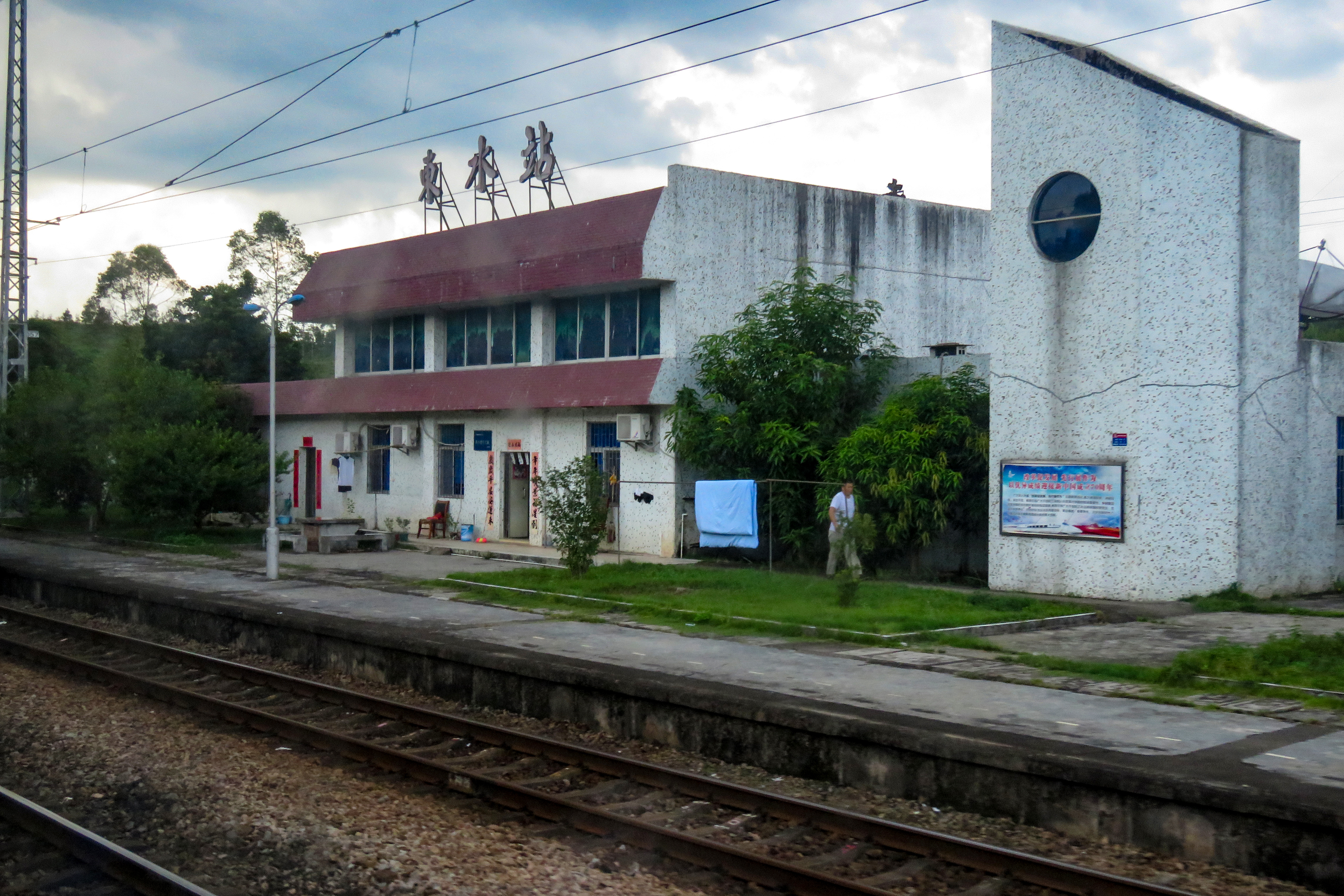 Linzhai was skipped due to sudden rain.